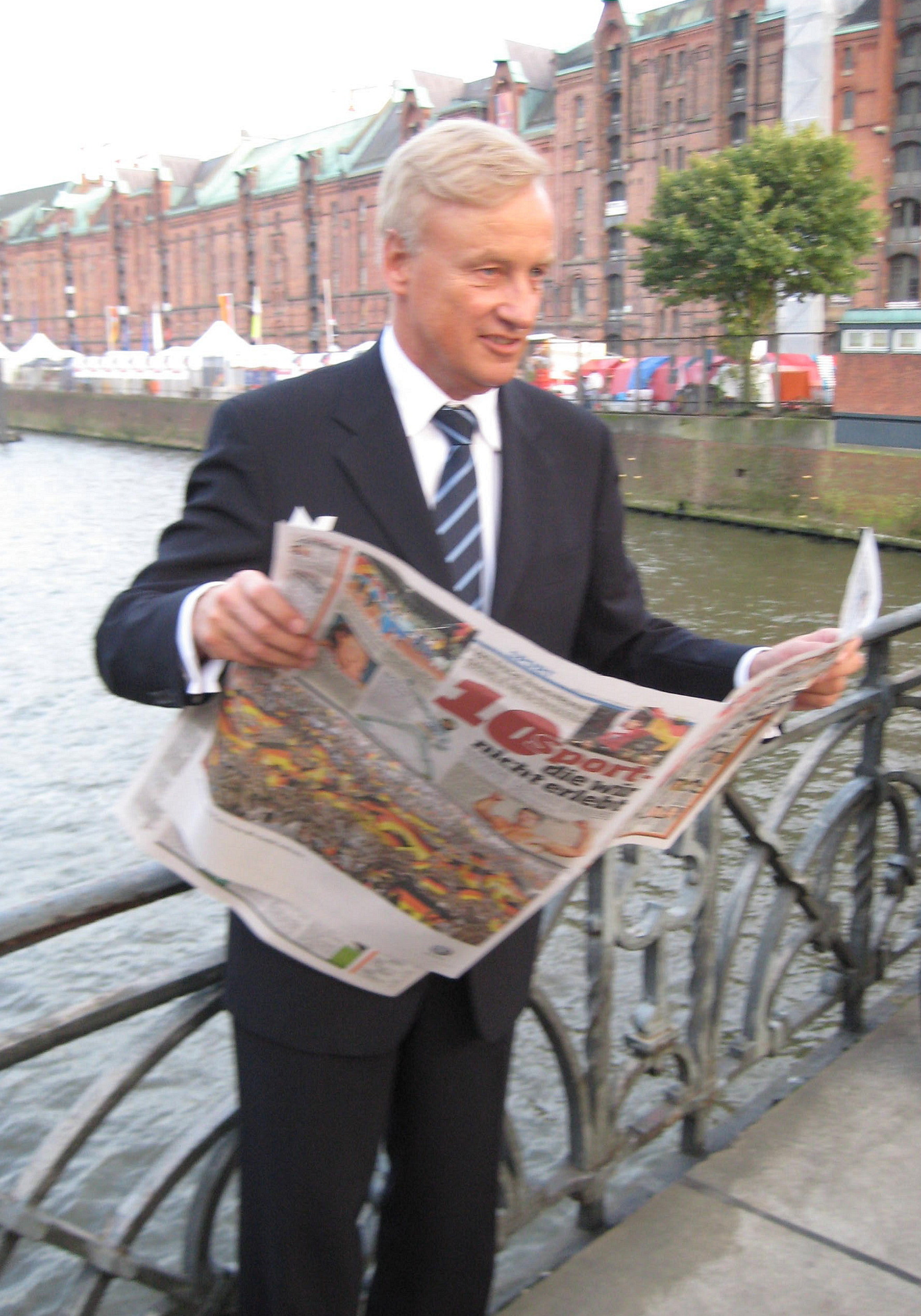 Ole von Beust